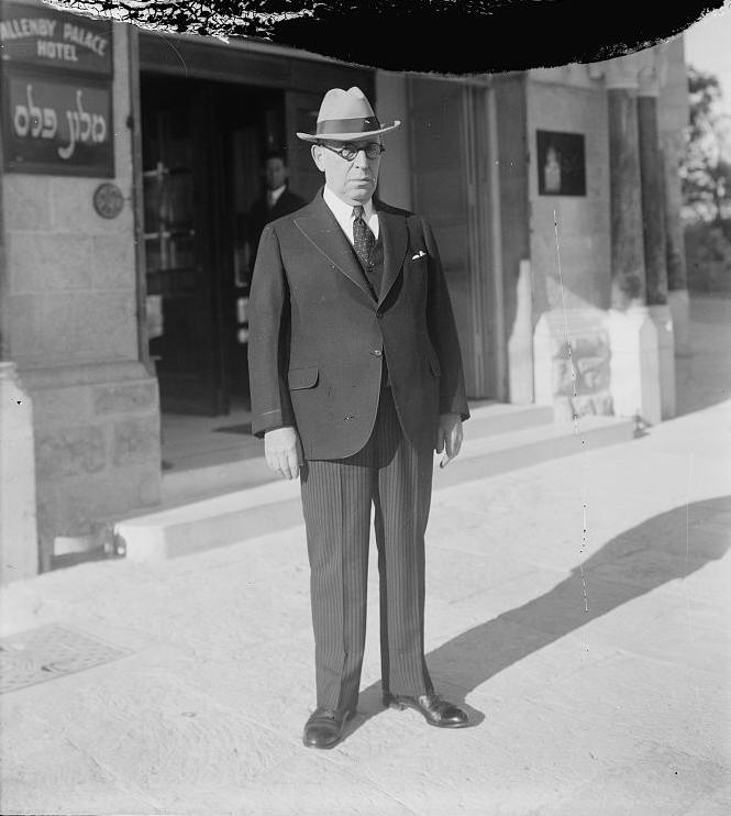 Edward Keith-Roach, high-ranking British government officer in Palestine